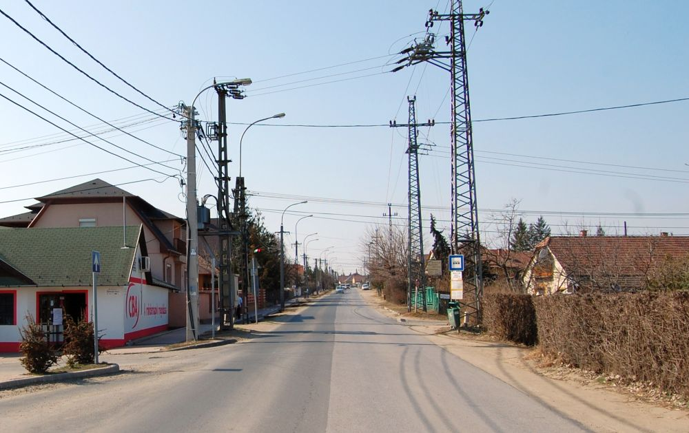 Őrbottyán, Rákóczi Ferenc street